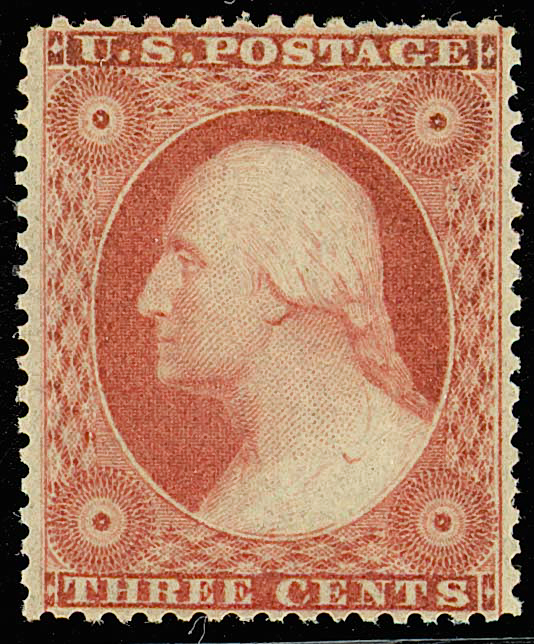 US Postage stamp: Washington, 1851 Issue, 3c